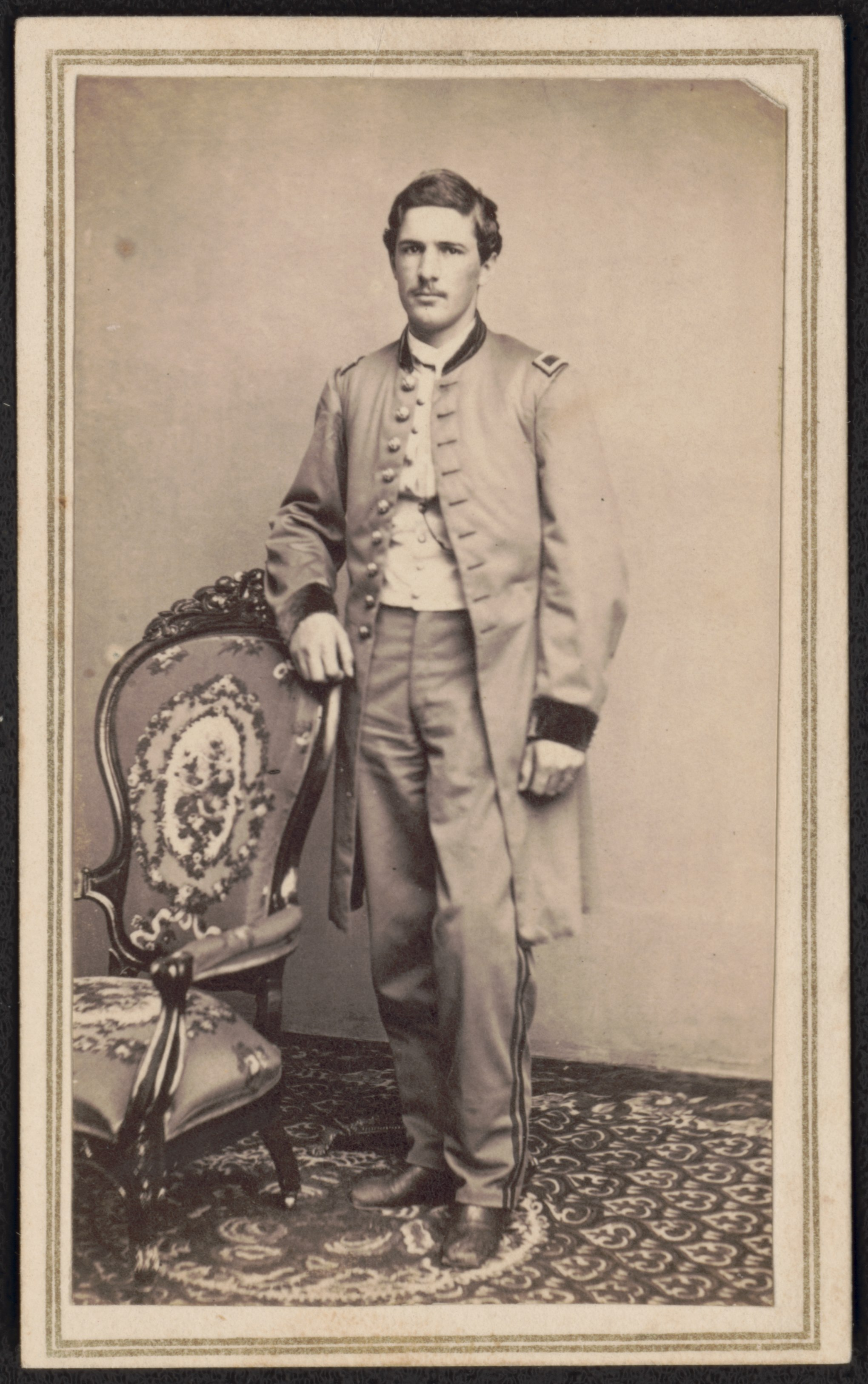 Title: Lieutenant Francis Raymond Rice of Co. A and Co. F, 1st Michigan Infantry Regiment in uniform Abstract/medium: 1 photograph : albumen print on card mount ; mount 11 x 6 cm (carte de visite format)